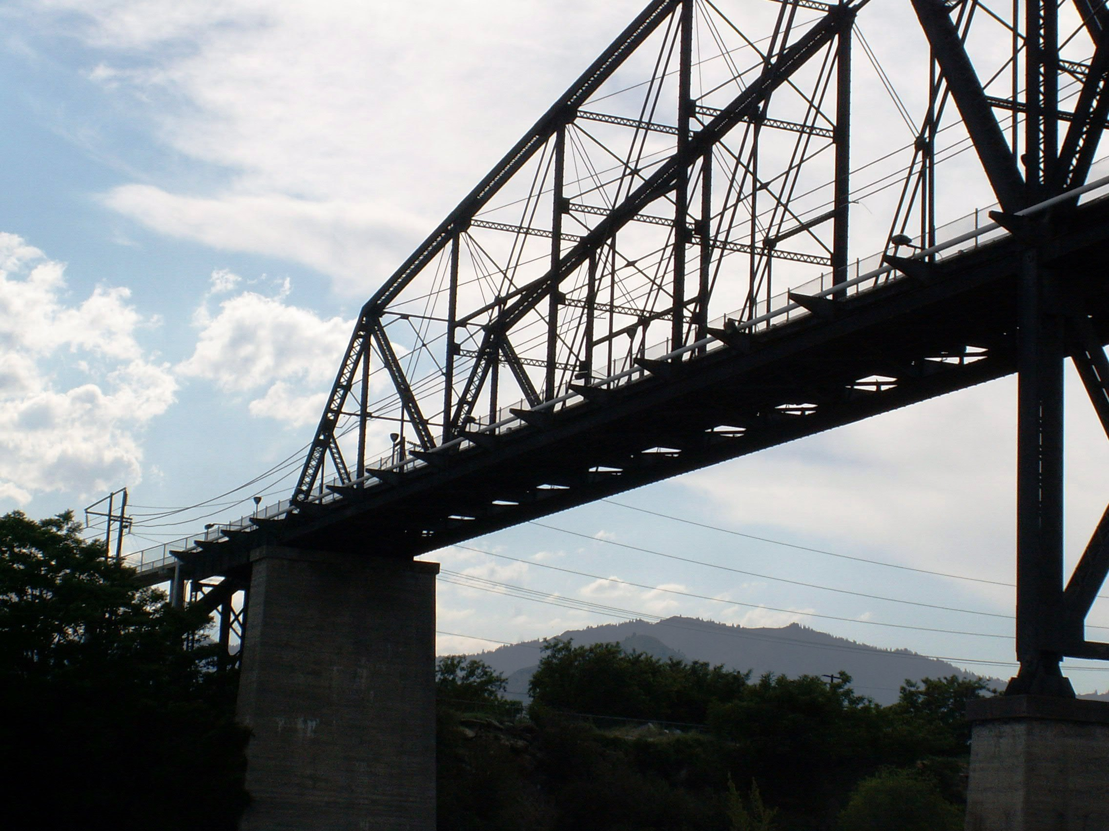 Aslo called: Old Wenatchee-East Wenatchee Bridge, Historic Pipeline/Pedestrian Bridge, Wenatchee Pipeline Foot Bridge